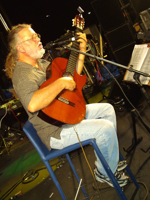 roy brown pic